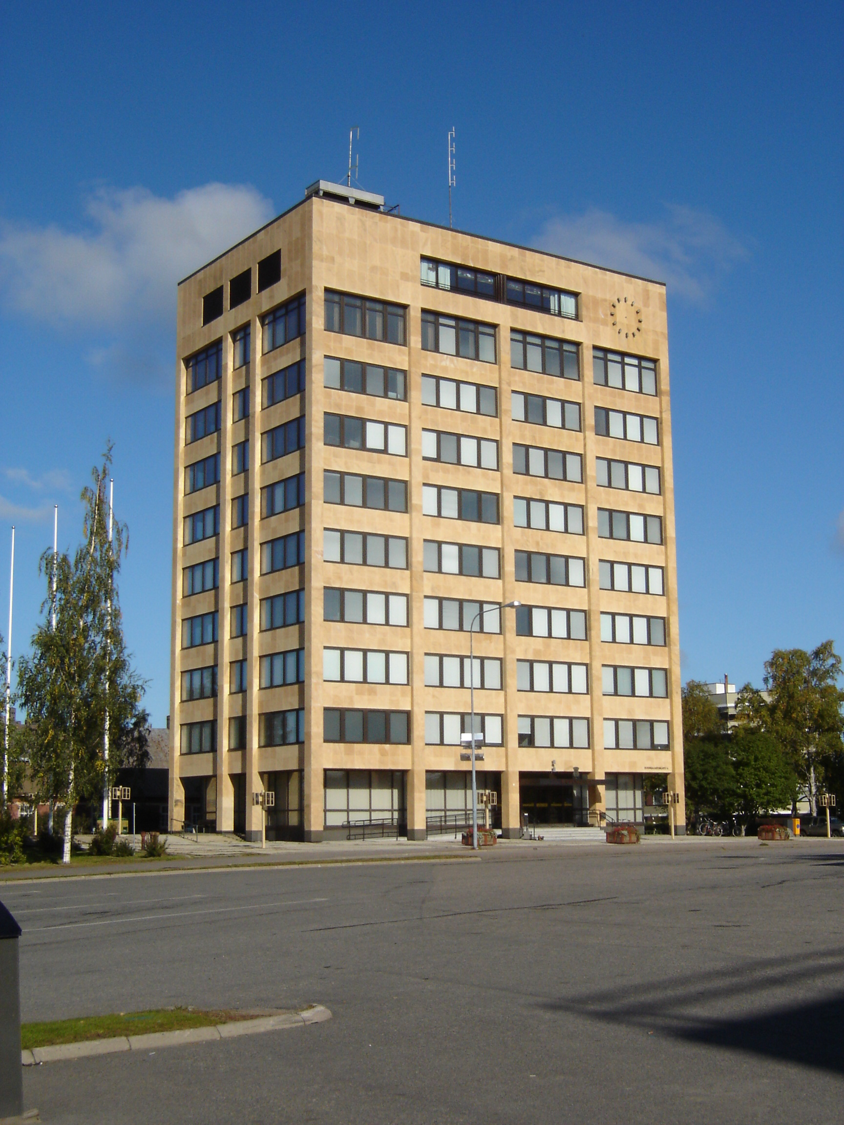 Town hall of Tornio, Finland